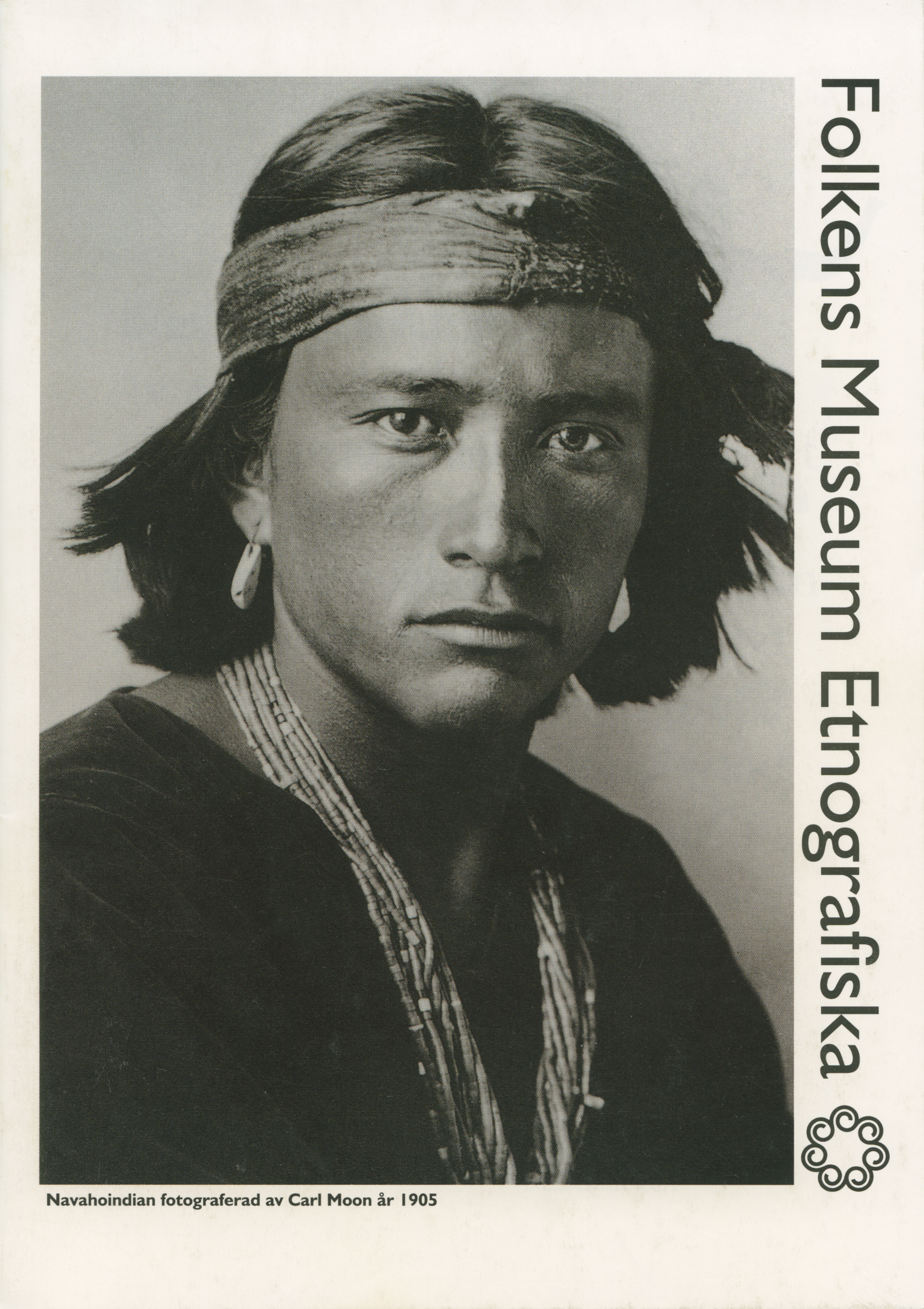 Front cover of brochure from 1998 (Museum of Ethnography, Stockholm, Sweden). Photograph by Carl Moon taken in 1905.